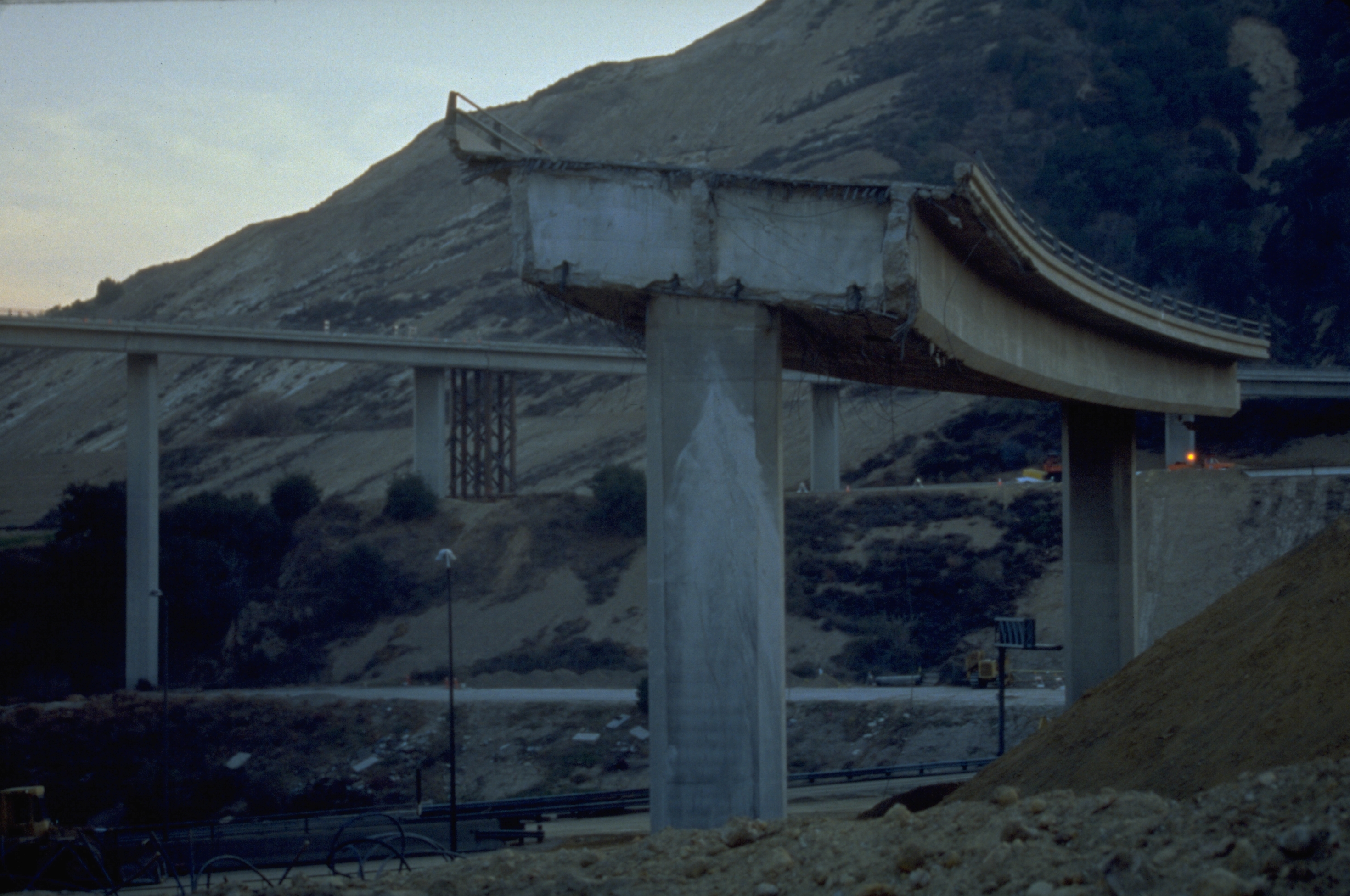 Collapsed section of the Newhall Pass Interchange — San Fernando Valley. Northridge Earthquake, CA, January 17, 1994 -� Many roads, including bridges and elevated highways were damaged by the 6.7 magnitude earthquake. Approximately 114,000 residential and commercial structures were damaged and 72 deaths were attributed to the earthquake. Damage costs were estimated at $25 billion. FEMA News Photo